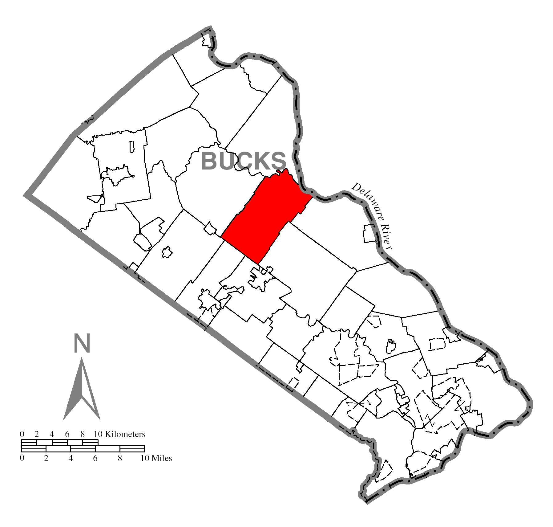 A map of Bucks County showing Plumstead Township, Pennsylvania (alternate) highlighted on the map.